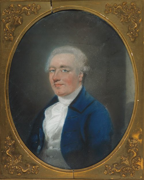 Portrait of Charles Tottenham Loftus, 1st Marquess of Ely